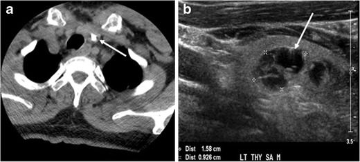 For context, see Computed tomography of the thyroid.